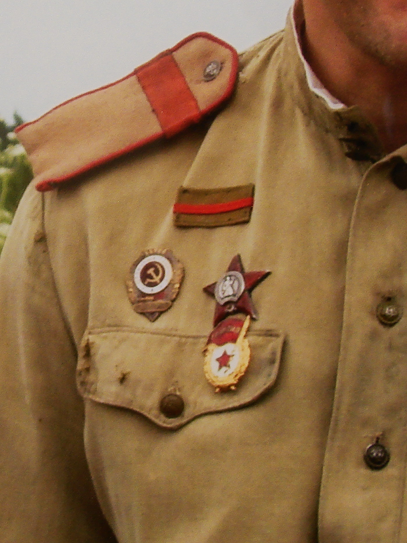 The wound stripe on the Soviet uniforms